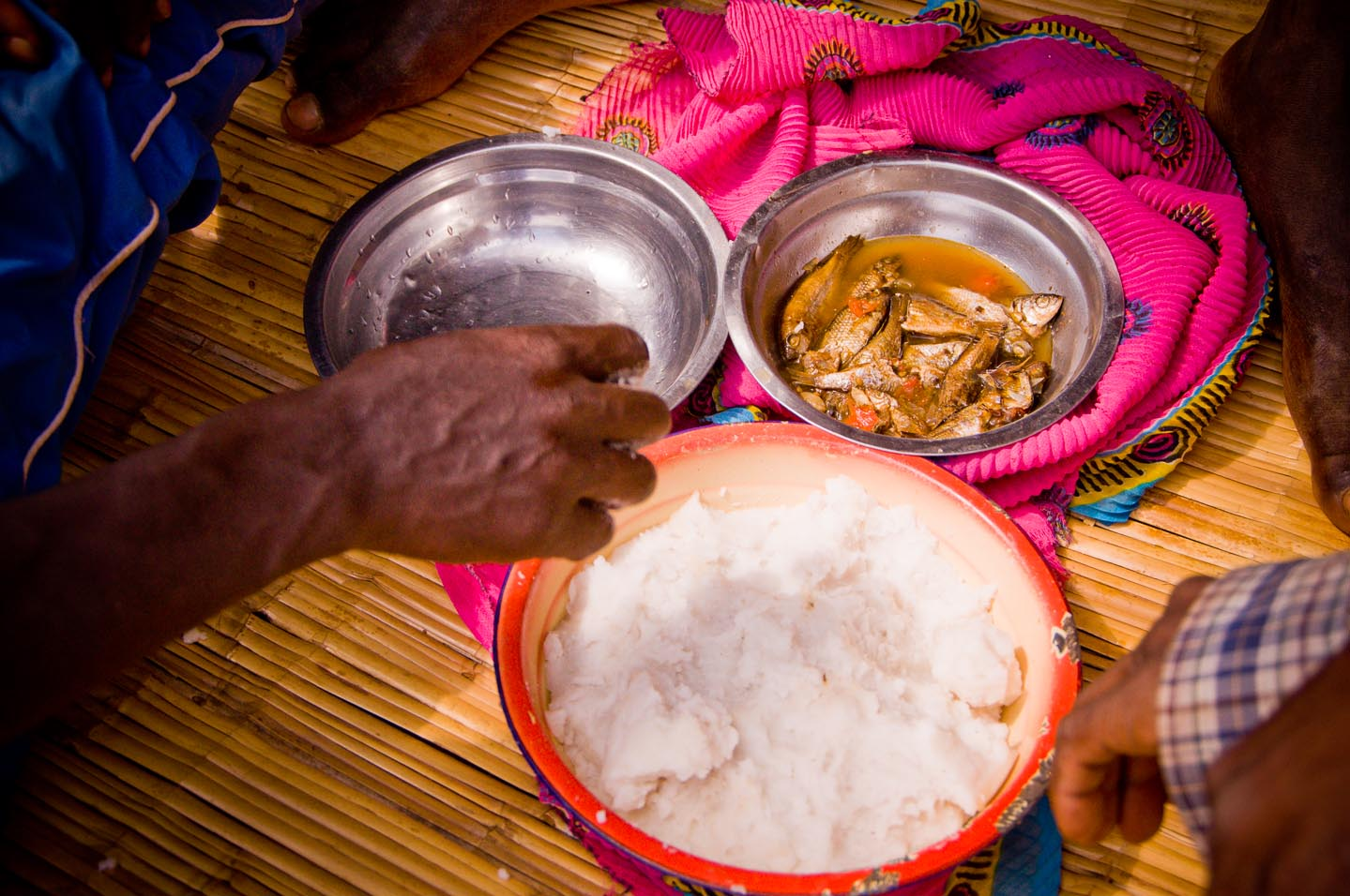 Ugali (white in bowl) and usipa (small fish), staples of the Yawo people This is an image of food from Mozambique